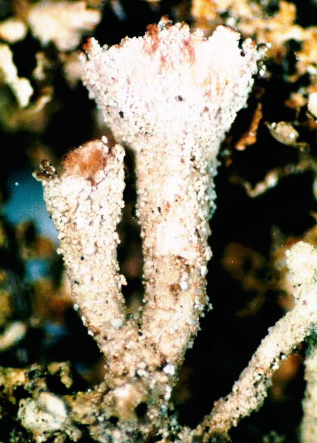 Cladonia chlorophaea (Flörke ex Sommerf.) Spreng., 1827 (photograph of a herbarium specimen taken through a dissecting microscope (x20) showing a close-up view of podetia) Growing on moss and logs in low wet area of deciduous forest at Corcoran Environmental Study Area, adjacent to Sandy Point State Park, Anne Arundel County, Maryland, USA; collected and identified by A. Norden and B. Ball (No. 137, 15 Dec 1972); specimen is now in the Lichen Herbarium of the New York Botanical Garden. (millimeter scale)